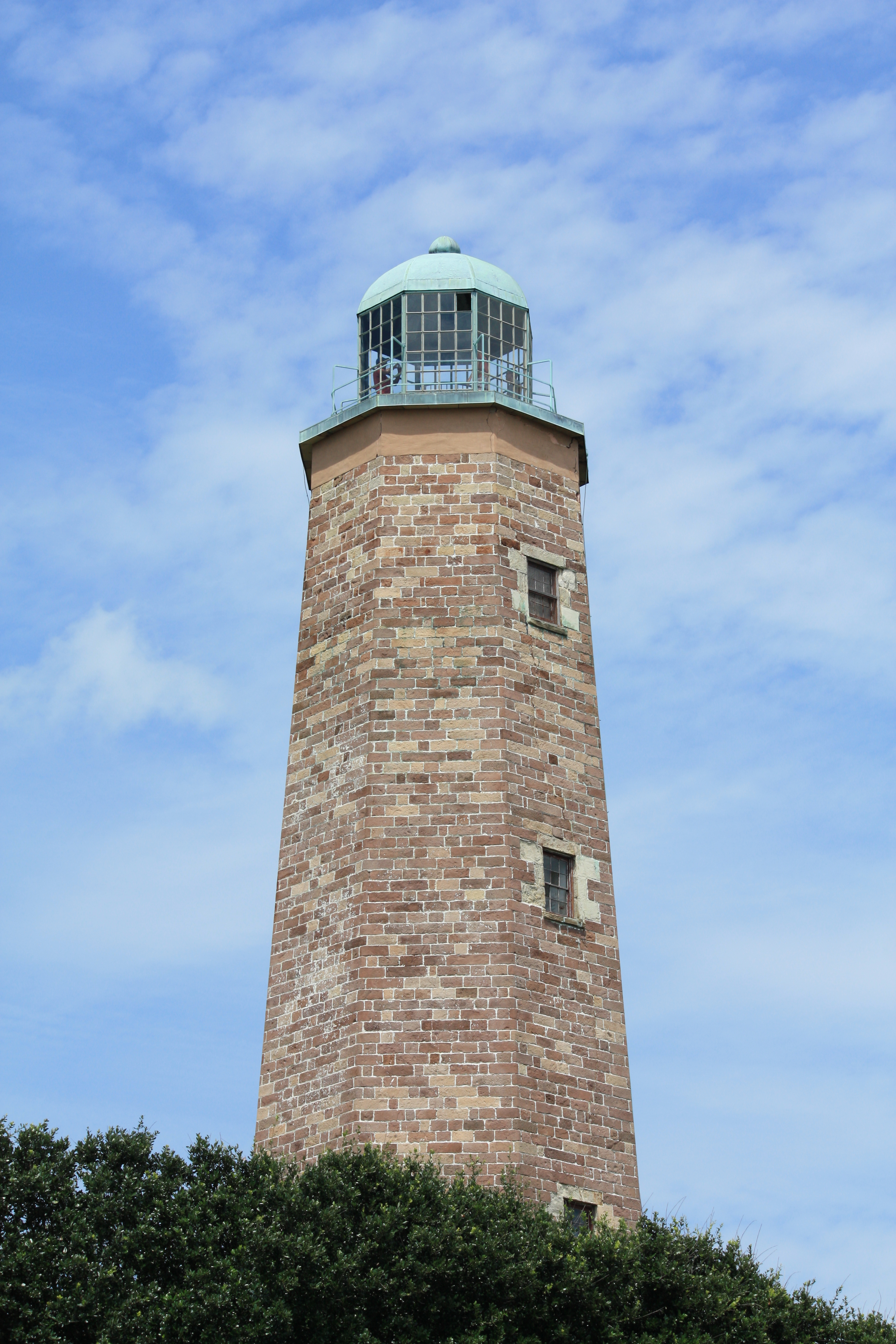 The original Cape Henry Lighthouse at Fort Story in Virginia Beach, VA.